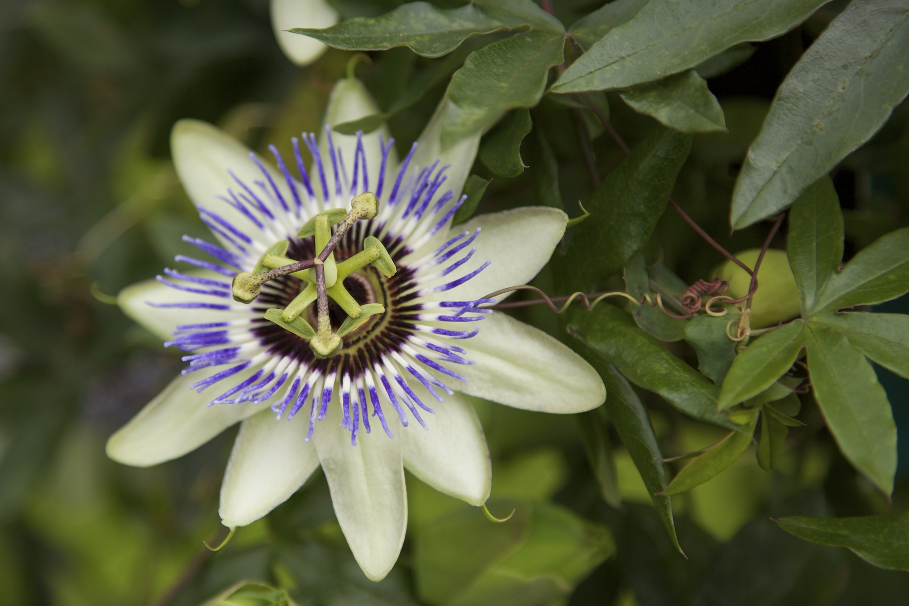 Picture of a great Passionflower